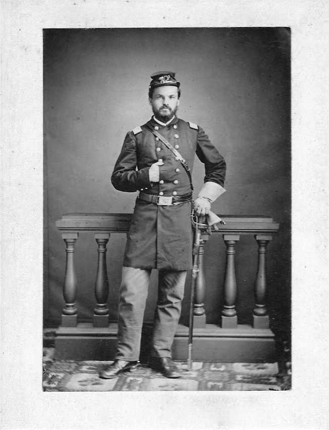 Gustav Tafel (1830-1908), German-born colonel in the Union Army during the American Civil War, and the mayor of Cincinnati, Ohio, from 1897 to 1900.